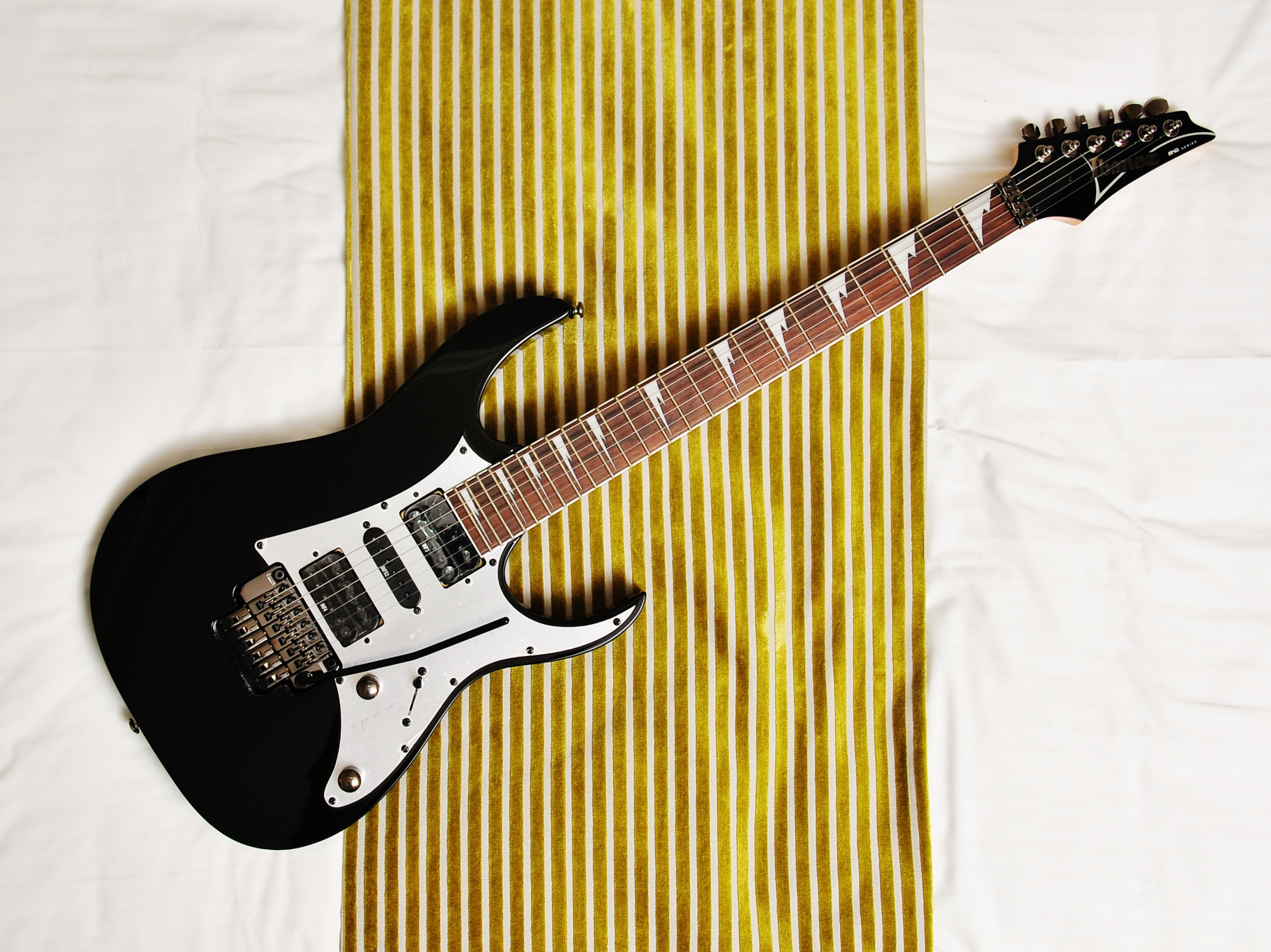 Ibanez RG Series Electric Guitar, Year 2011, 350EXZ black variant with the Edge Zero II tremolo. Stock Ibanez Infinity pickups. Photo by soulrefrain